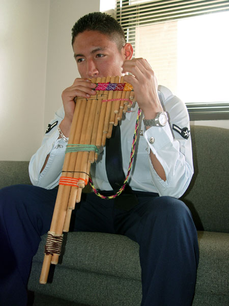 Caption: MCCONNELL AIR FORCE BASE, Kan. -- Airman Fredy Pasco plays the zampoña, an Inca instrument he has been playing since he was 6 years old. He came to the United States from Peru on April 16, 1998, and joined the Air Force in September 2003. (U.S. Air Force photo by Airman 1st Class Harold Barnes III)